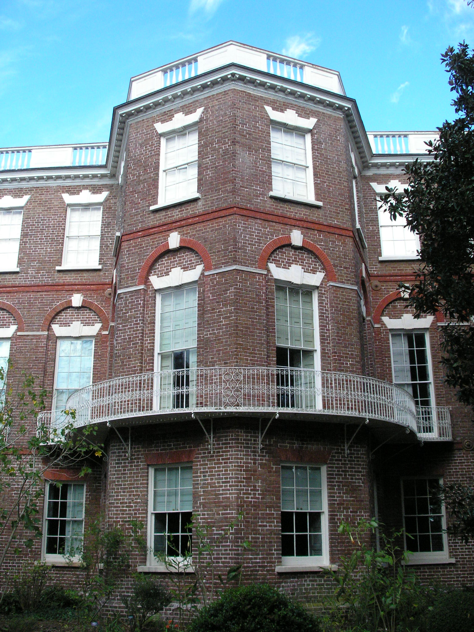 The rear of the Nathaniel Russell House in Charleston, South Carolina.